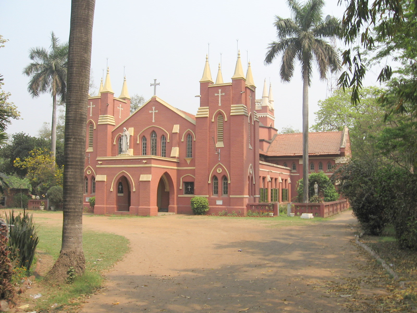 The Sacred-Heart Church of Asansol, built in 1875 as a railway chaplaincy is now the Cathedral of the Asansol diocese